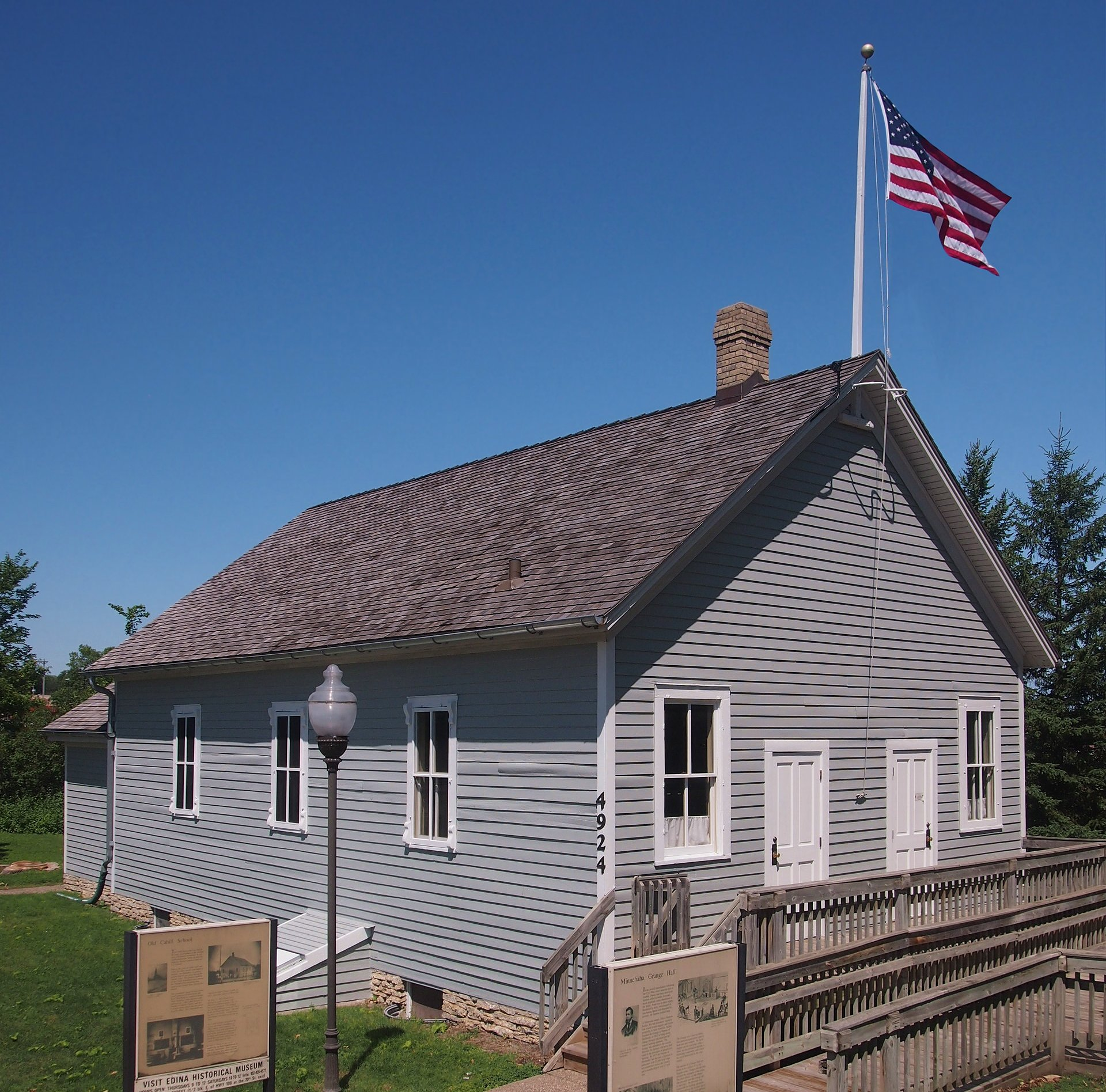 Cahill School, 4924 Eden Ave, Frank Tupa Park, Edina, Minnesota, USA. Viewed from the southeast.